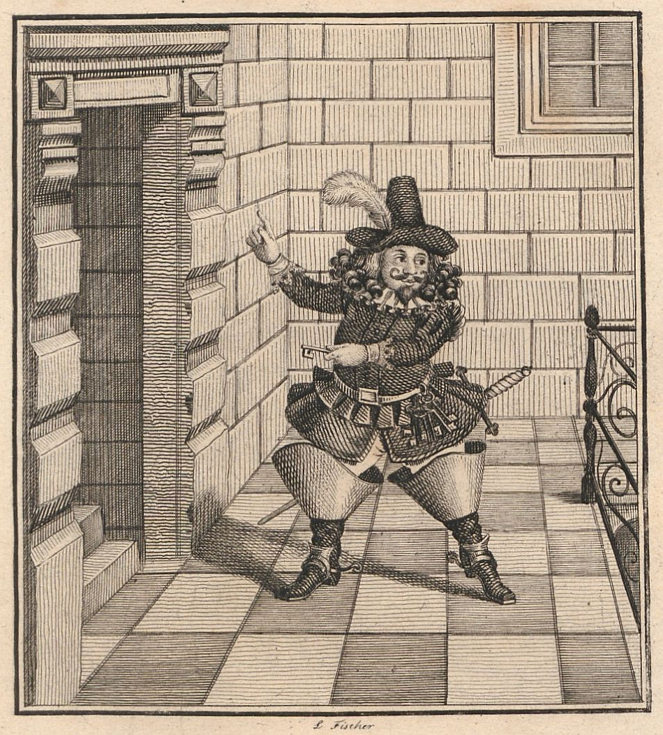 Portrait ( 19th century ) of the Schwerin-castle ghost "Petermännchen"( Little Peter )